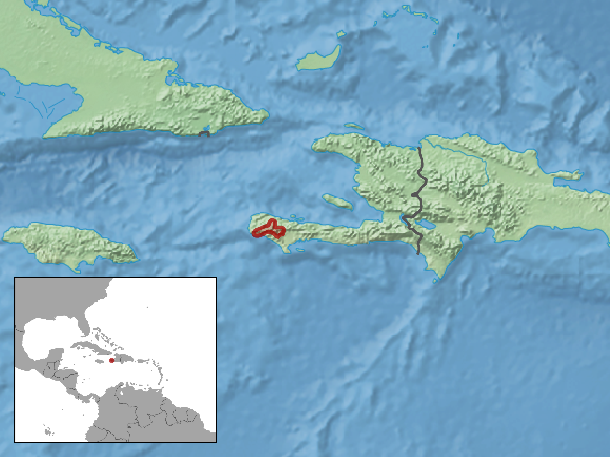 Geographic distribution of Eleutherodactylus glandulifer